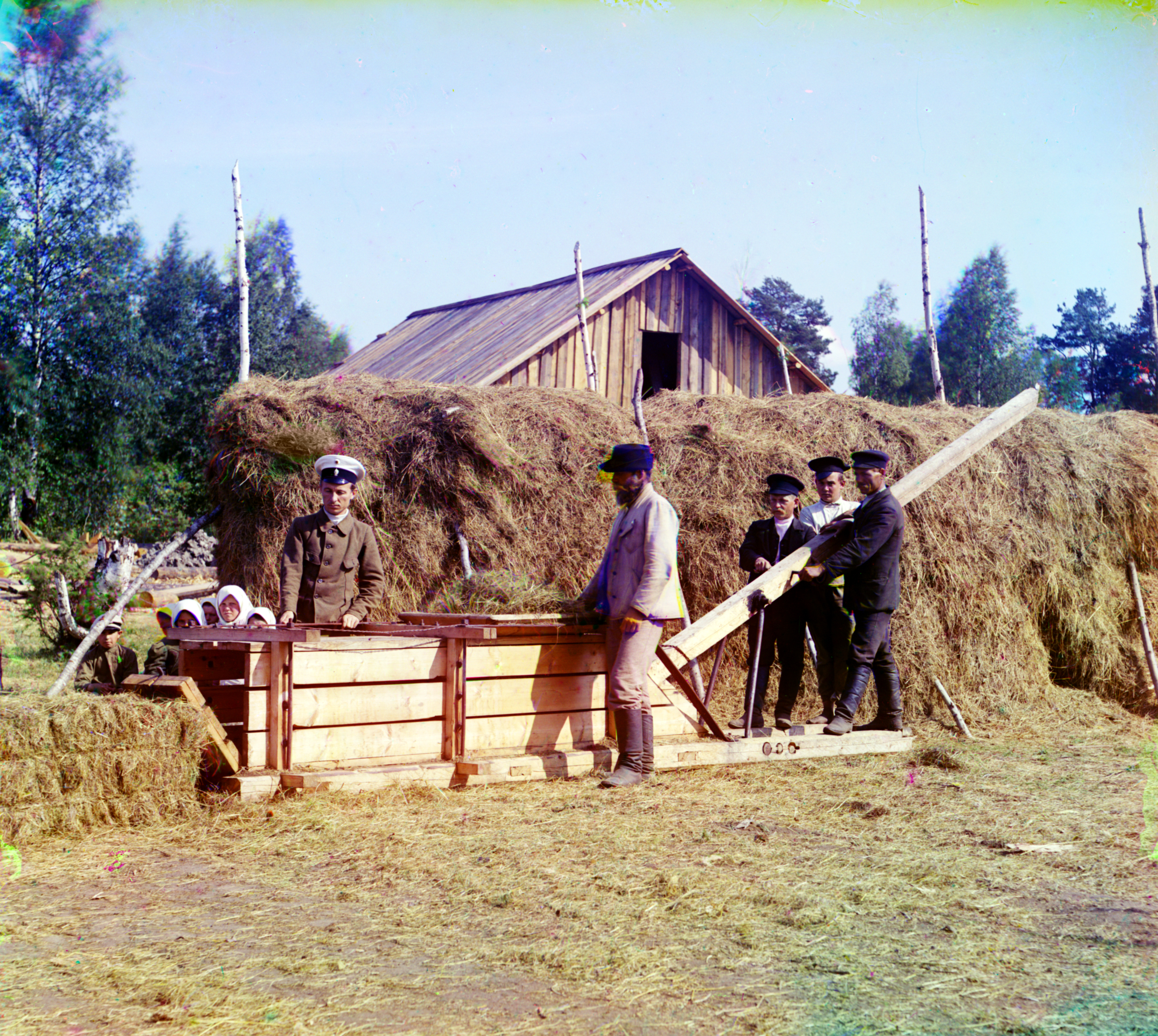 Baling machine for hay